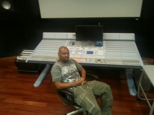 Rah-Nyse at Nyse Music Studios in Atlanta, GA